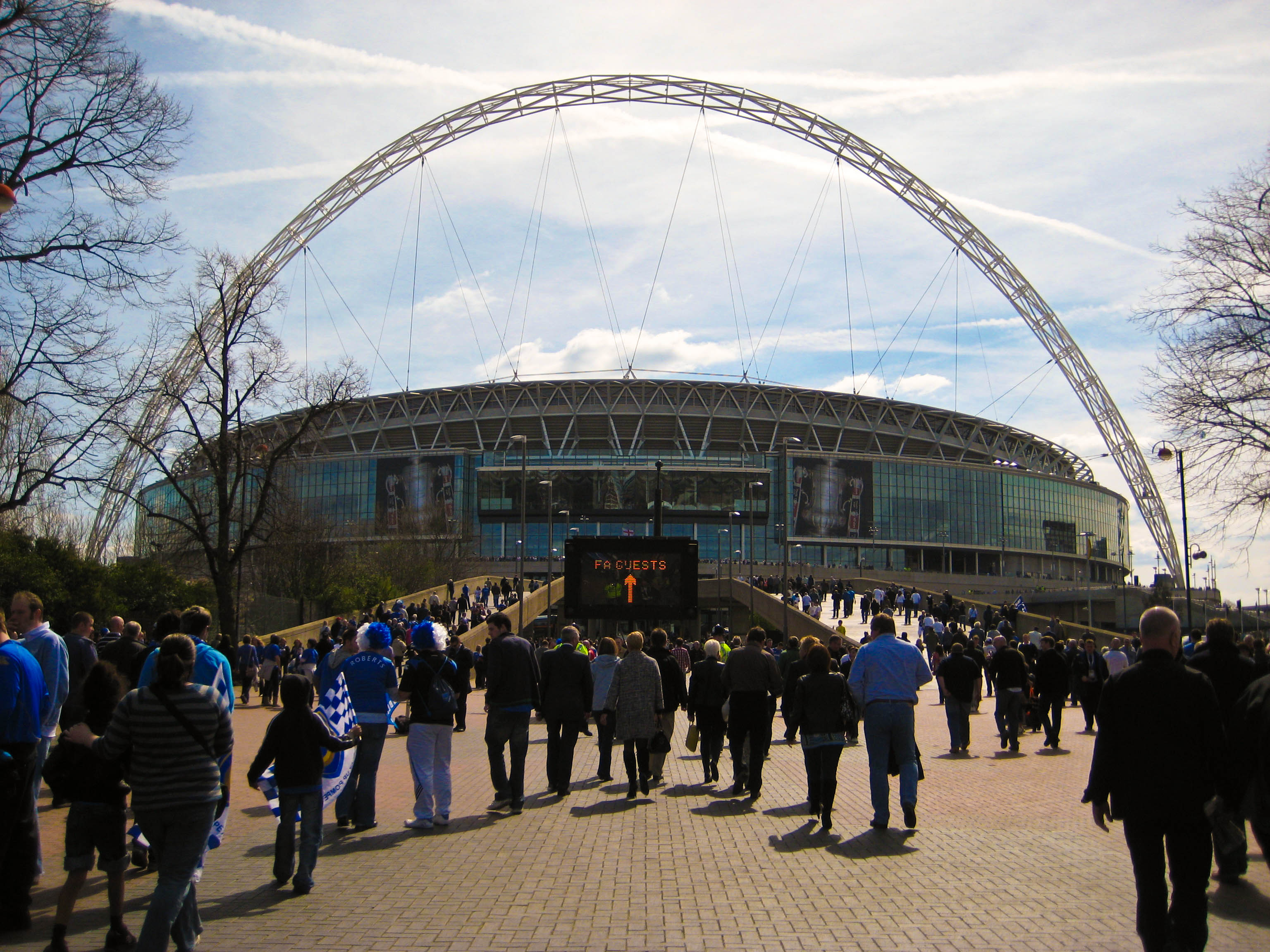 View from North side of Wembley. View from Wembley Way.